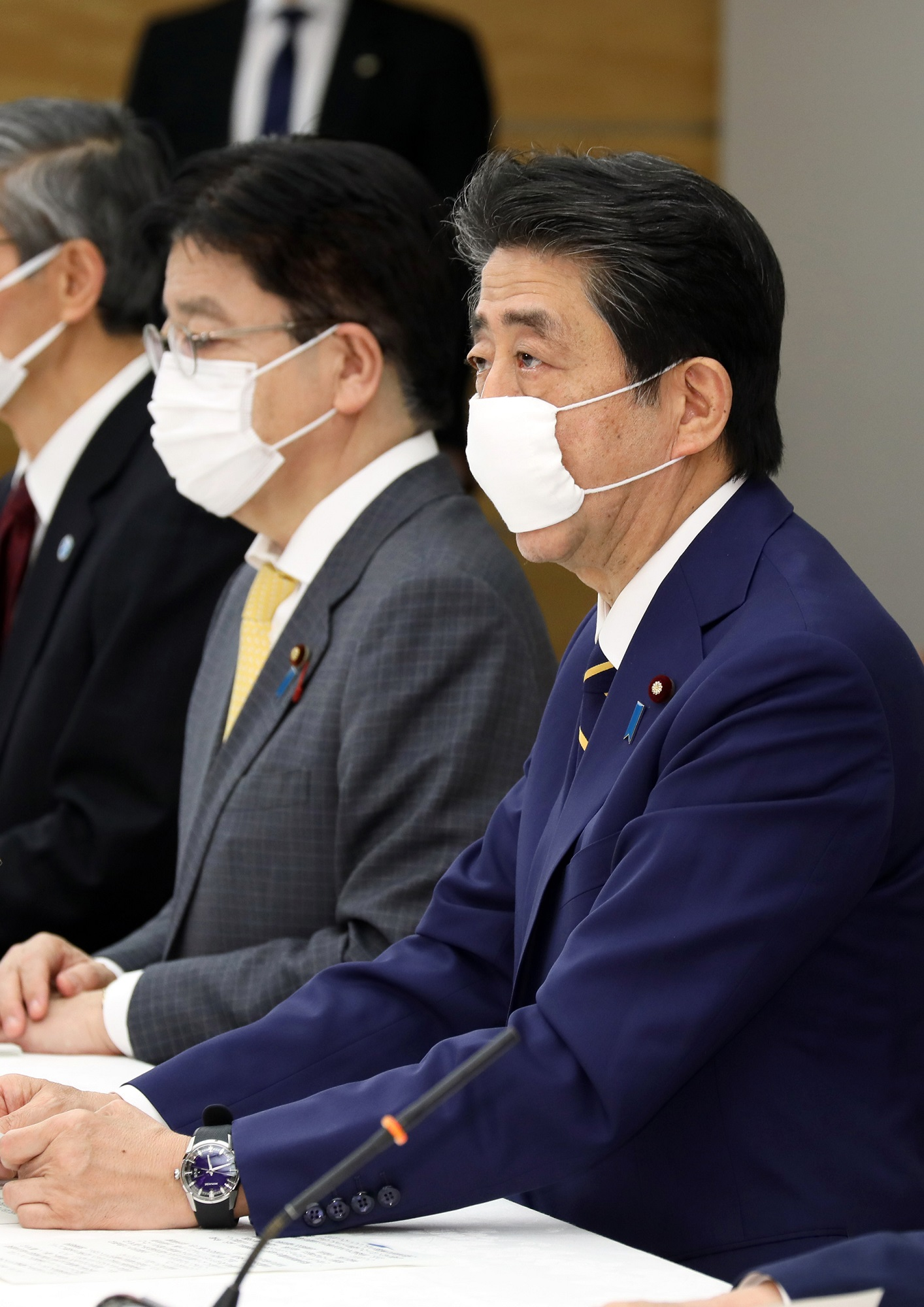 Shinzō Abe, Prime Minister, and Katsunobu Katō, Minister of Health, Labour and Welfare, attended a meeting of the Novel Coronavirus Response Headquarters at the Prime Minister's Official Residence in Chiyoda Ward, Tōkyō Metropolis on April 7, 2020.